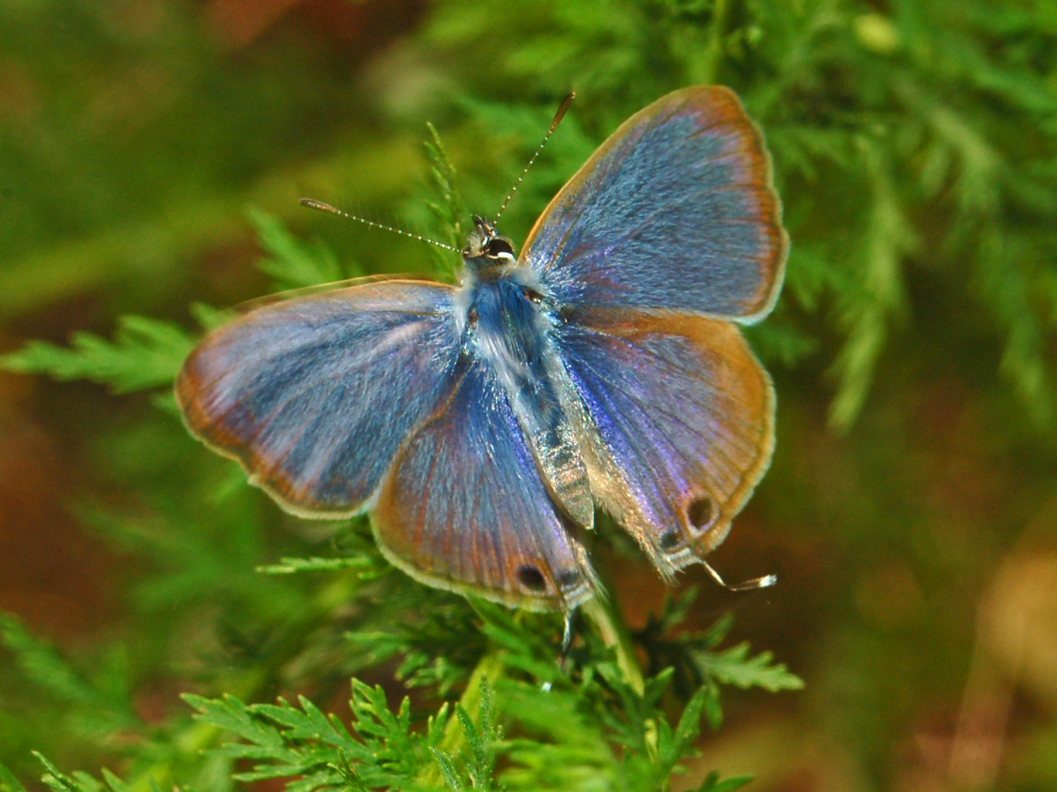 Lampides boeticus. Male. Upperside. Genova, Italy